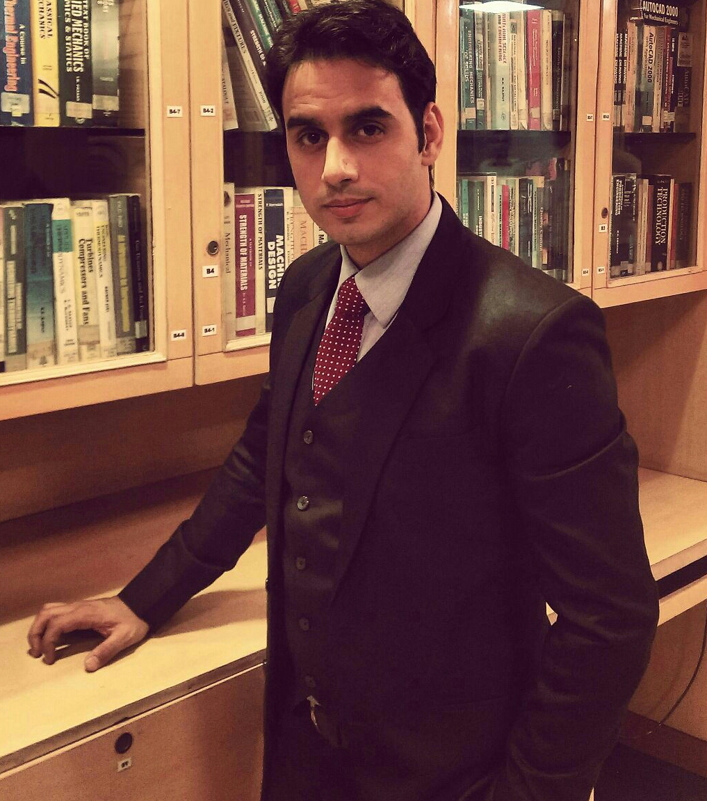 Waseem Mushtaq (born April 21,1984) is an Indian television actor known for the lead roles in the shows like Amrit Manthan, Aur Pyaar Ho Gaya, Dilli Wali Thakur Gurls, Bhagyavidhaata, and 12/24 Karol Bagh. Mushtaq also stars in Star Plus Mere Angne Mein.